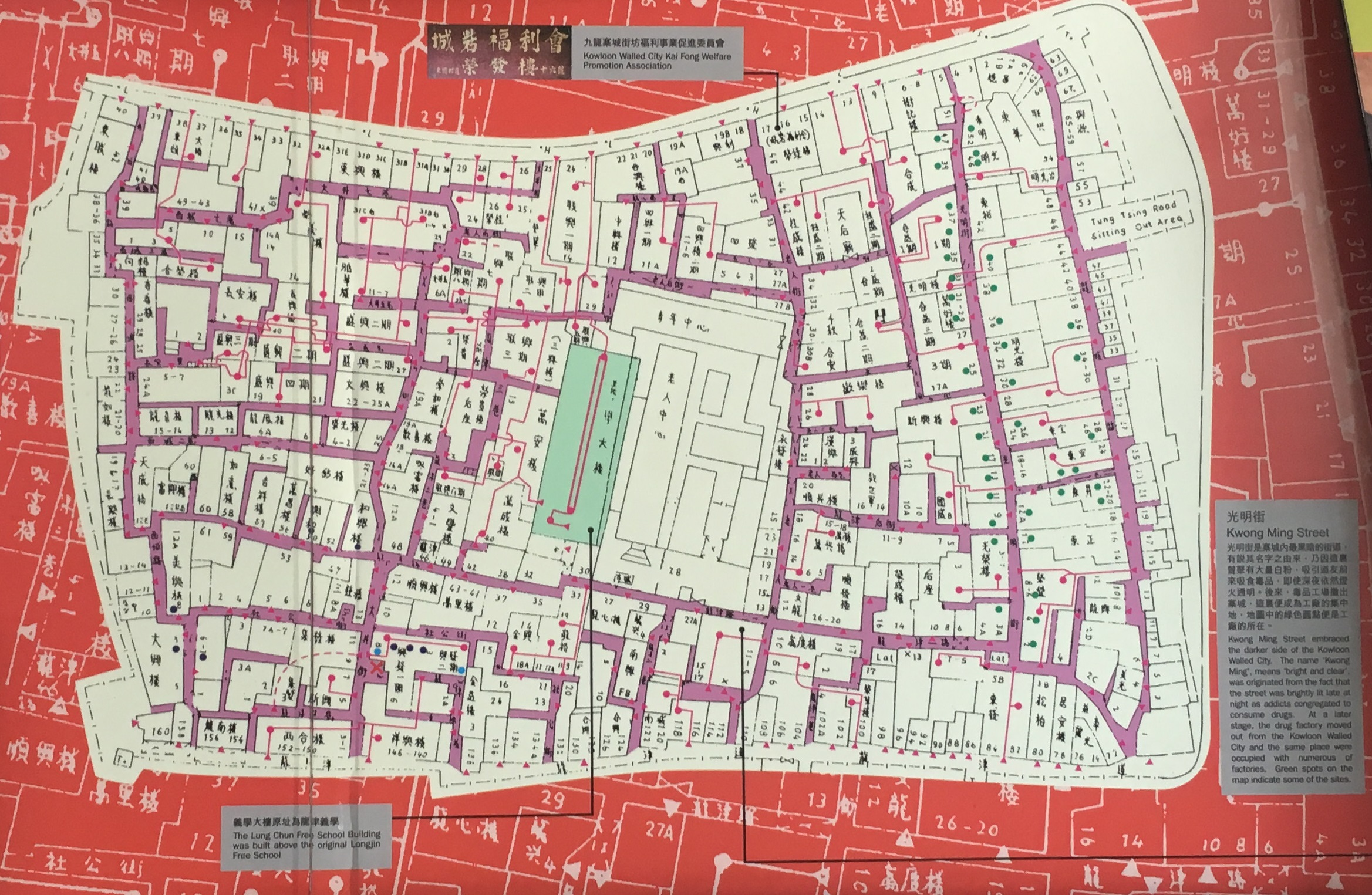 A detailed map of buildings and street names of the Kowloon Walled City in 1980s